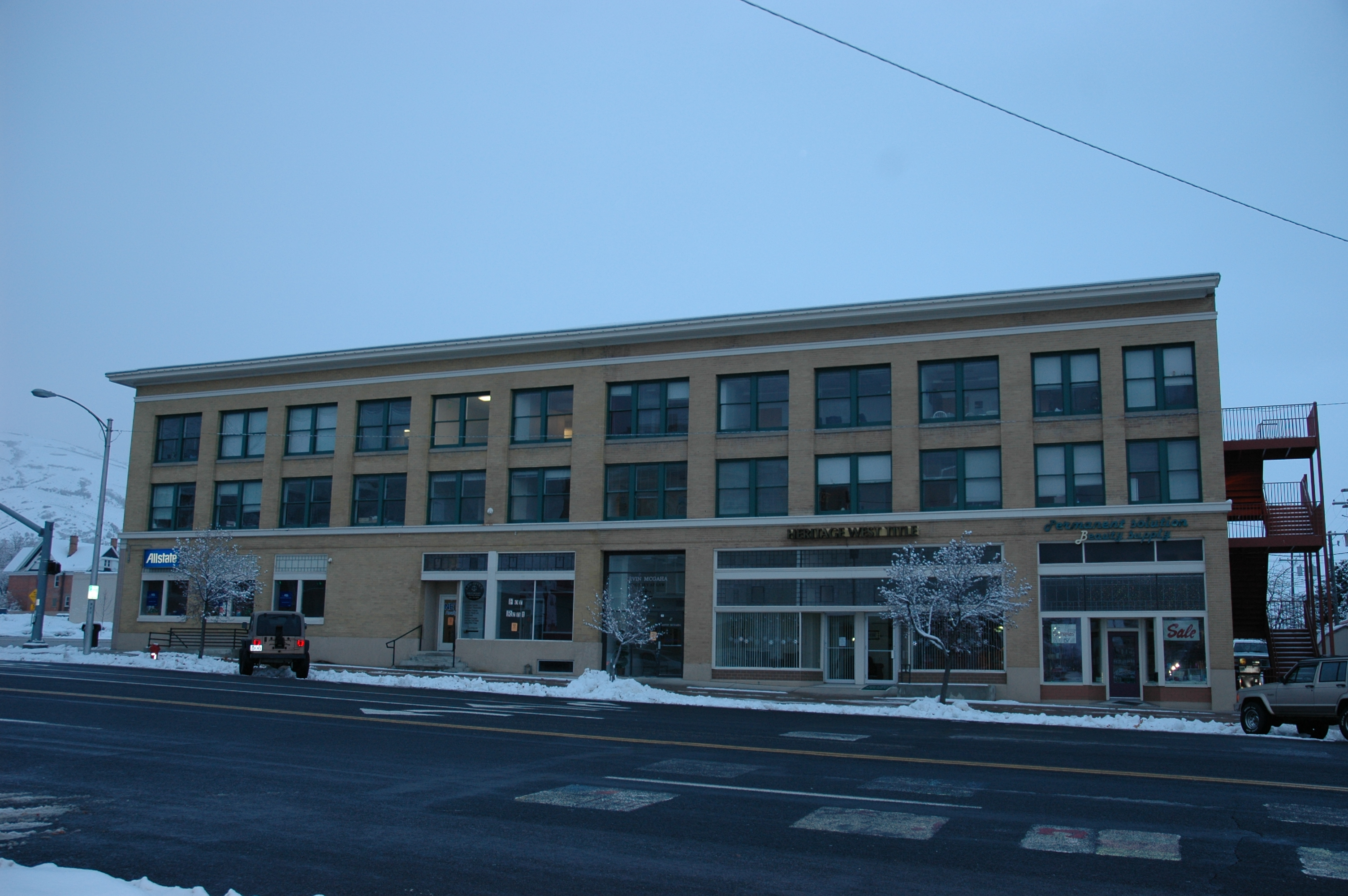 The Hotel Brigham, a historic building in Brigham City, Utah, United States.